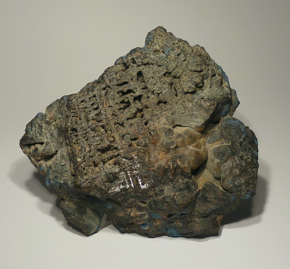 Galena, variety strickblende (Size: 120 mm x 100 mm) Locality: Schmalgraf Mine, Moresnet, Kelmis, Plombières-Vieille Montagne District (Plombières-Altenberg), Verviers, Liège Province, Belgium Description: Strickblende (knitted galena) in combination with schalenblende. Front side.